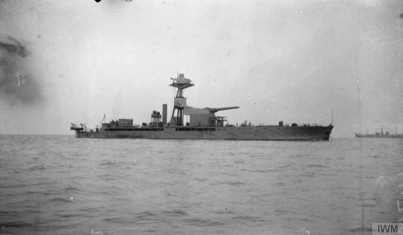 The Surrender of the German High Seas Fleet, November 1918 HMS MARSHAL SOULT.